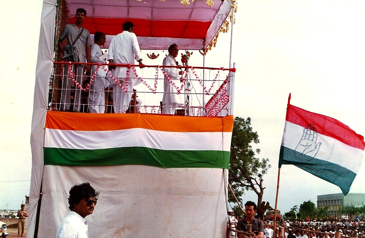 Rajiv Gandhi, campaigning at Bijapur, Karnataka; B M Sajjan is seen standing below